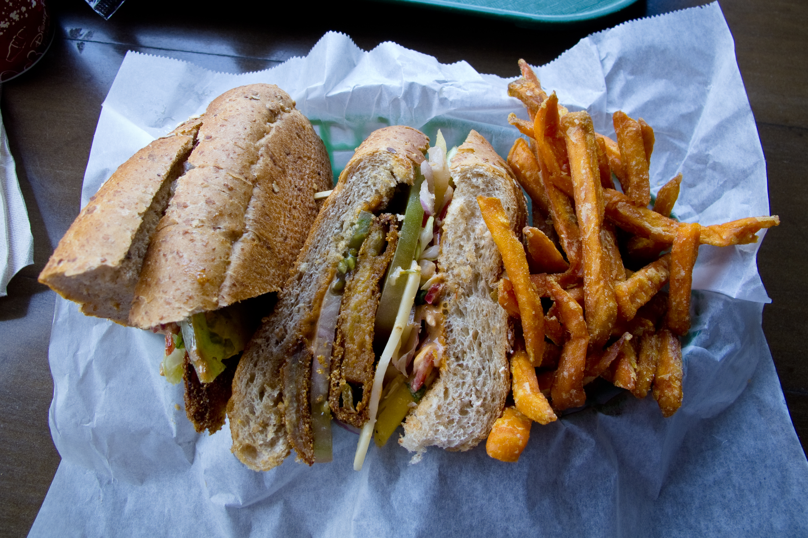 A Fried Green Tomato Sandwich, complete with sweet potato fries from the Hungry Bear Restaurant in Critter Country at Disneyland.